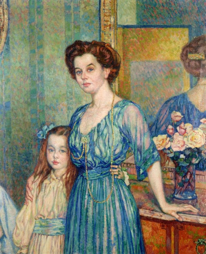 Théodoor van Rysselberghe (1862-1926): Madame Von Bodenhausen avec son enfant Luli , Oil painting, 1910.